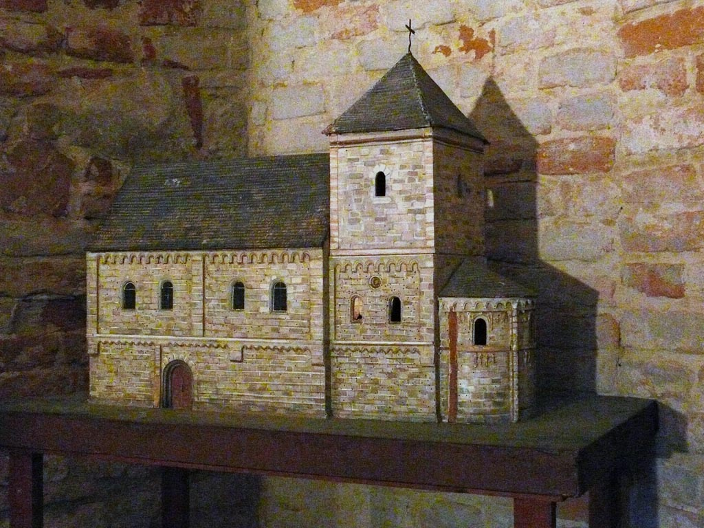 Model of the original Romanesque Church from 1230 AC